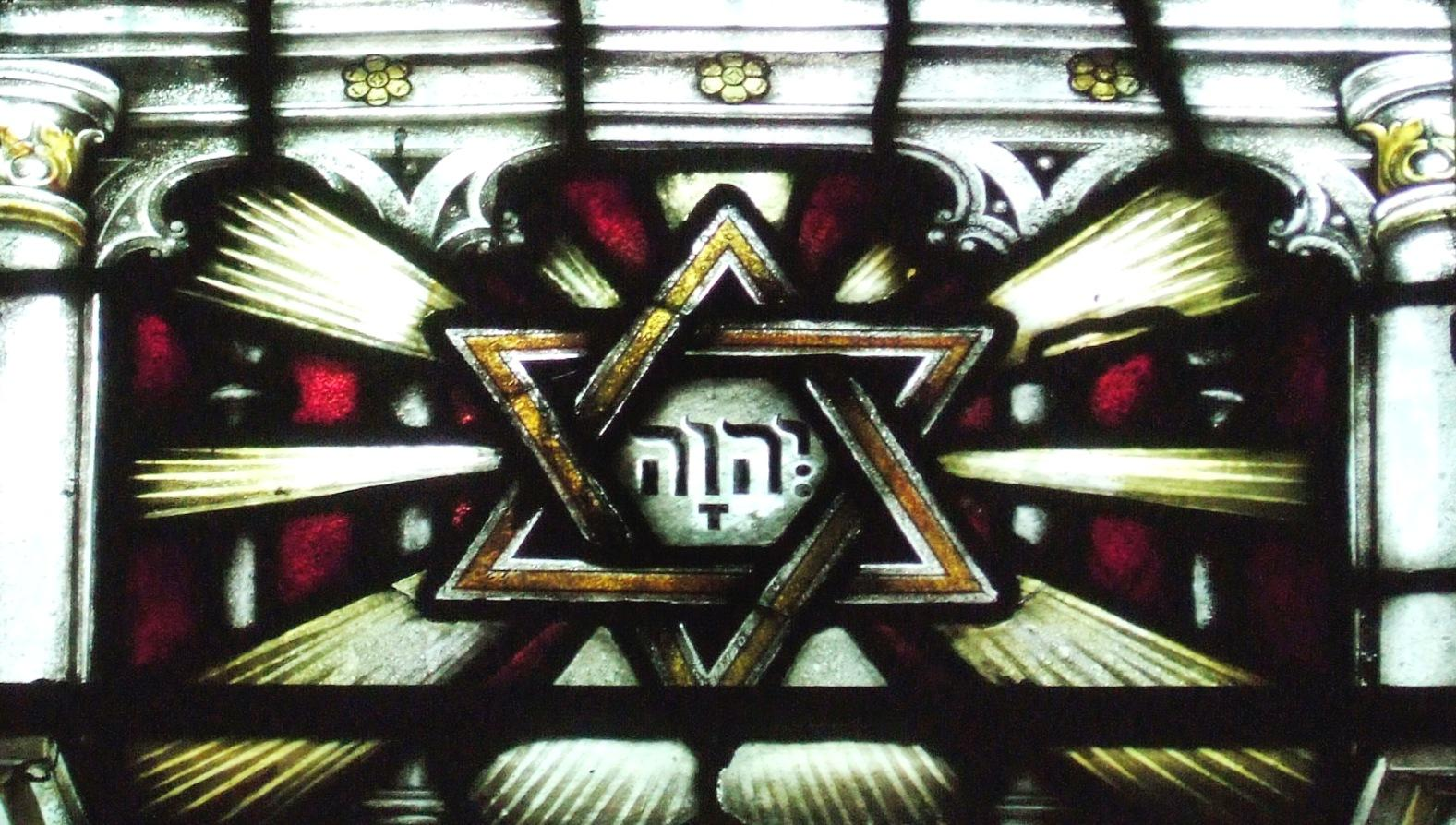 St Ann's Church, Manchester, England.